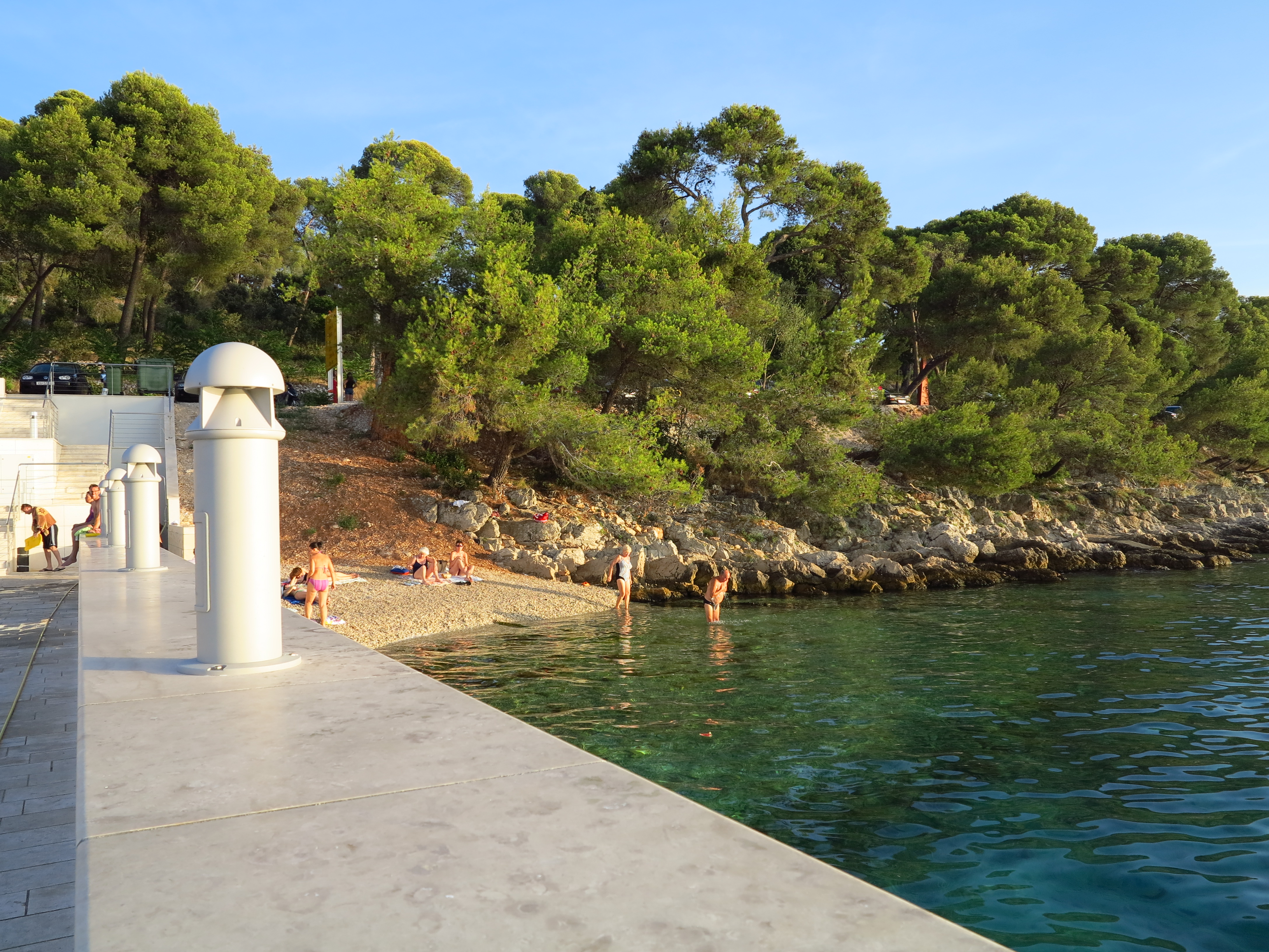 The beach near Marina of Maslinica on the island Šolta / Croatia / Adriatic Sea.